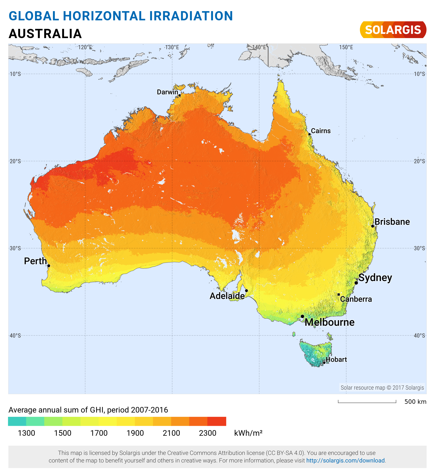 National Solar Irradiance map of Australia.